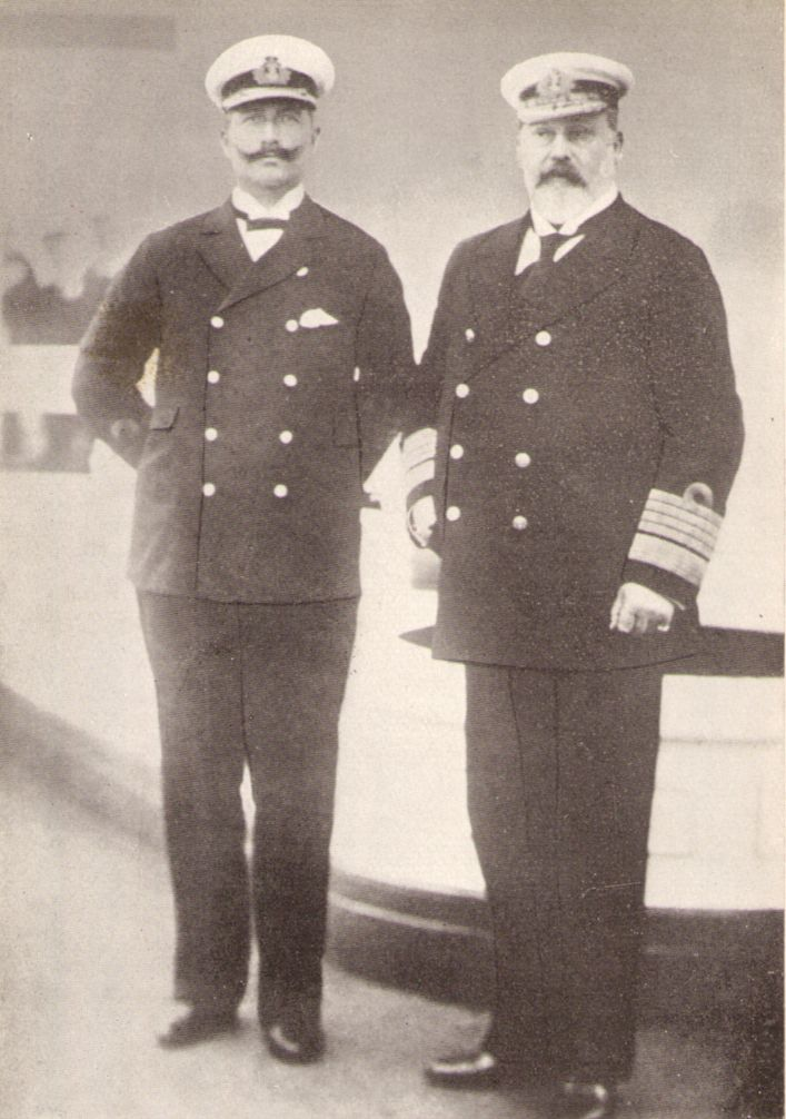 Kaiser Wilhelm II and King Edward VII in Kiel, 1904.